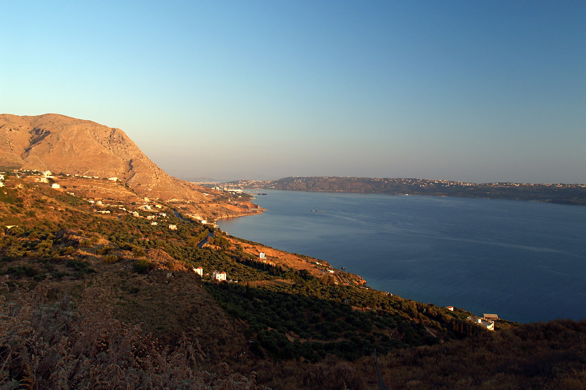 View of the West part of Souda Bay from the site of ancient Aptera